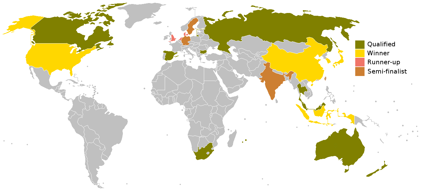 Countries that a least making an appearances in Uber Cup